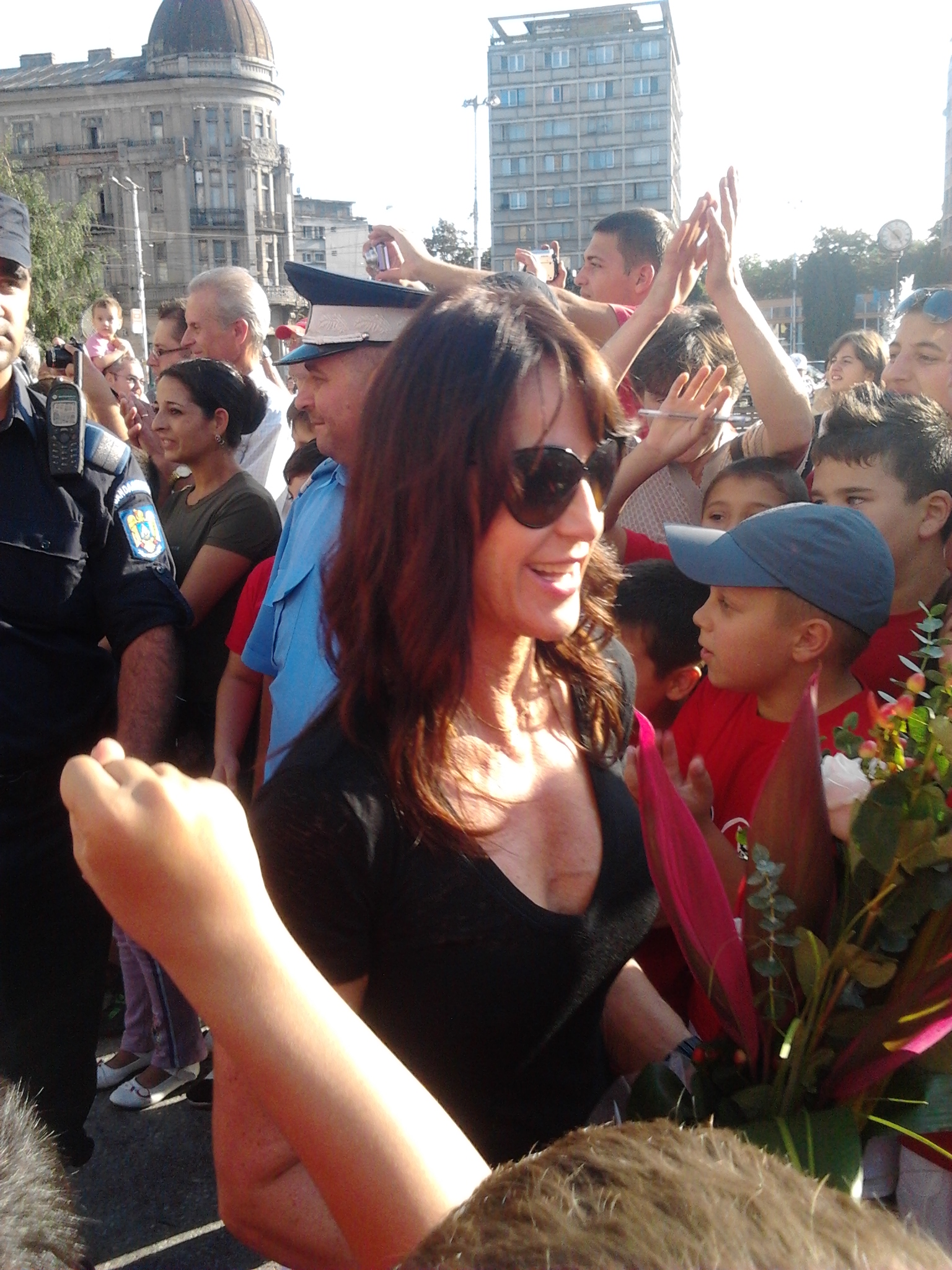 Nadia Comăneci in Iaşi, Romania, at 22 september 2011.